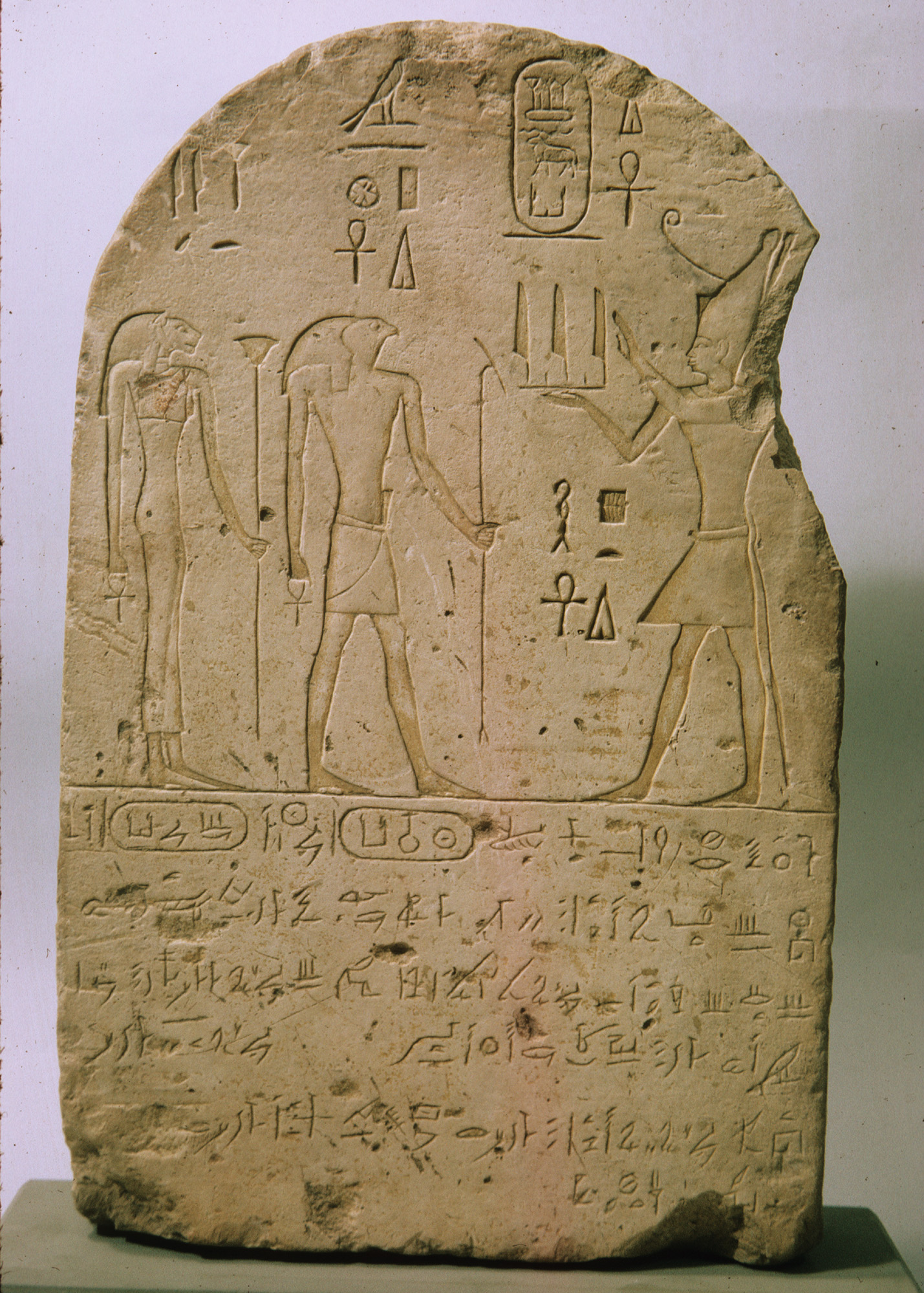 Stela, Donation, Shabaqo